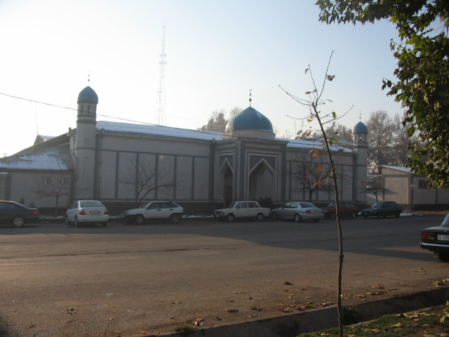 Mosque in Dushanbe Tajikistan